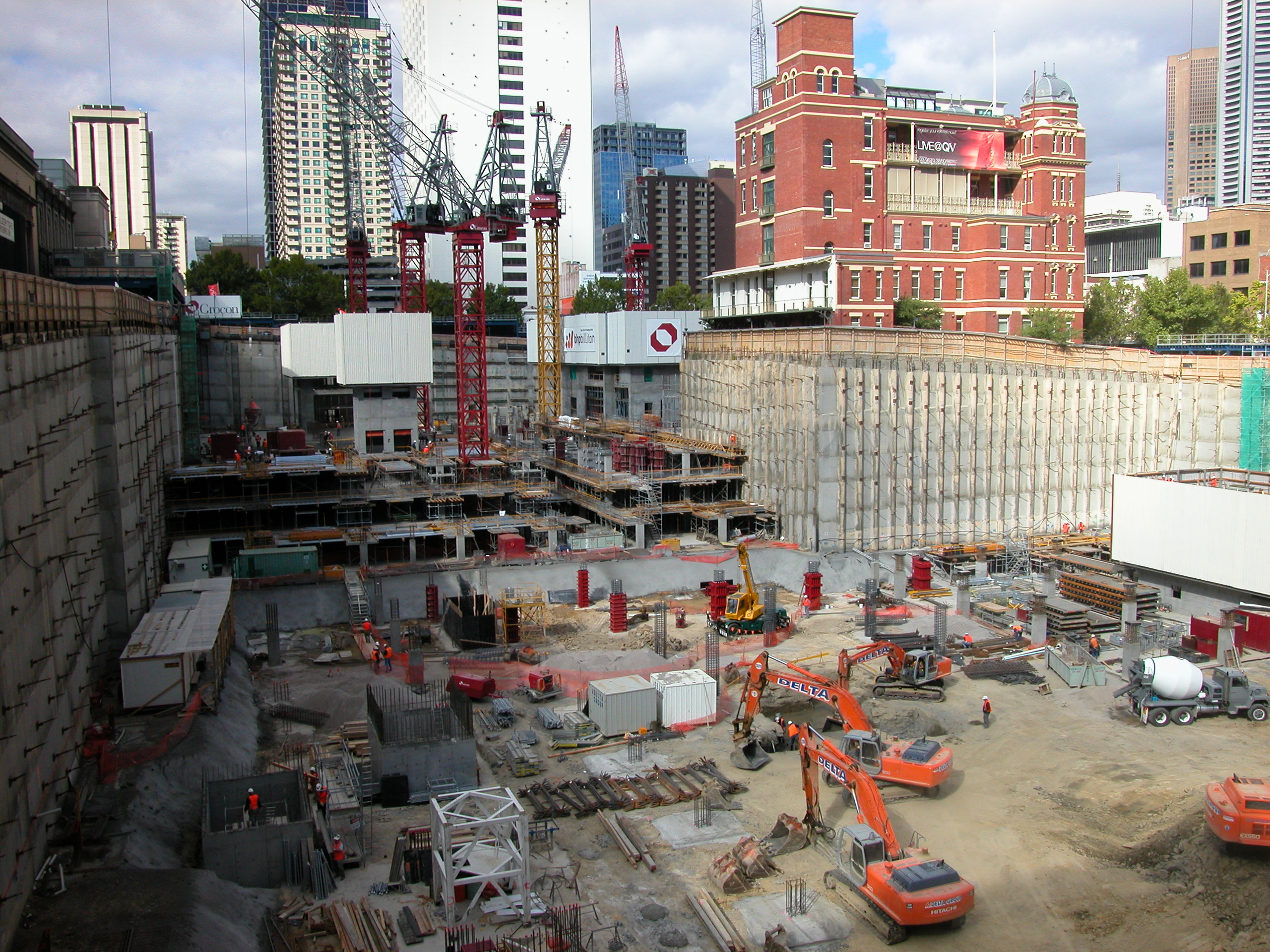 The QV Building construction site in Melbourne, Australia in 2002.